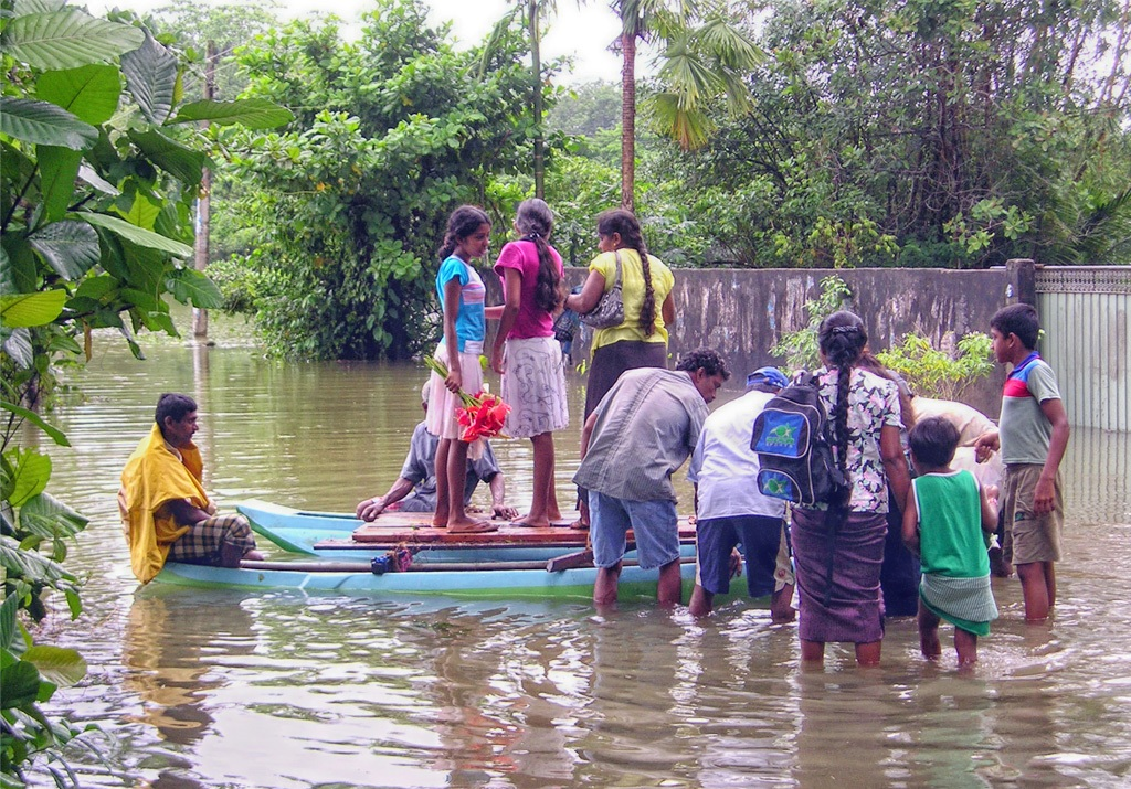 Ingiriya Flood02